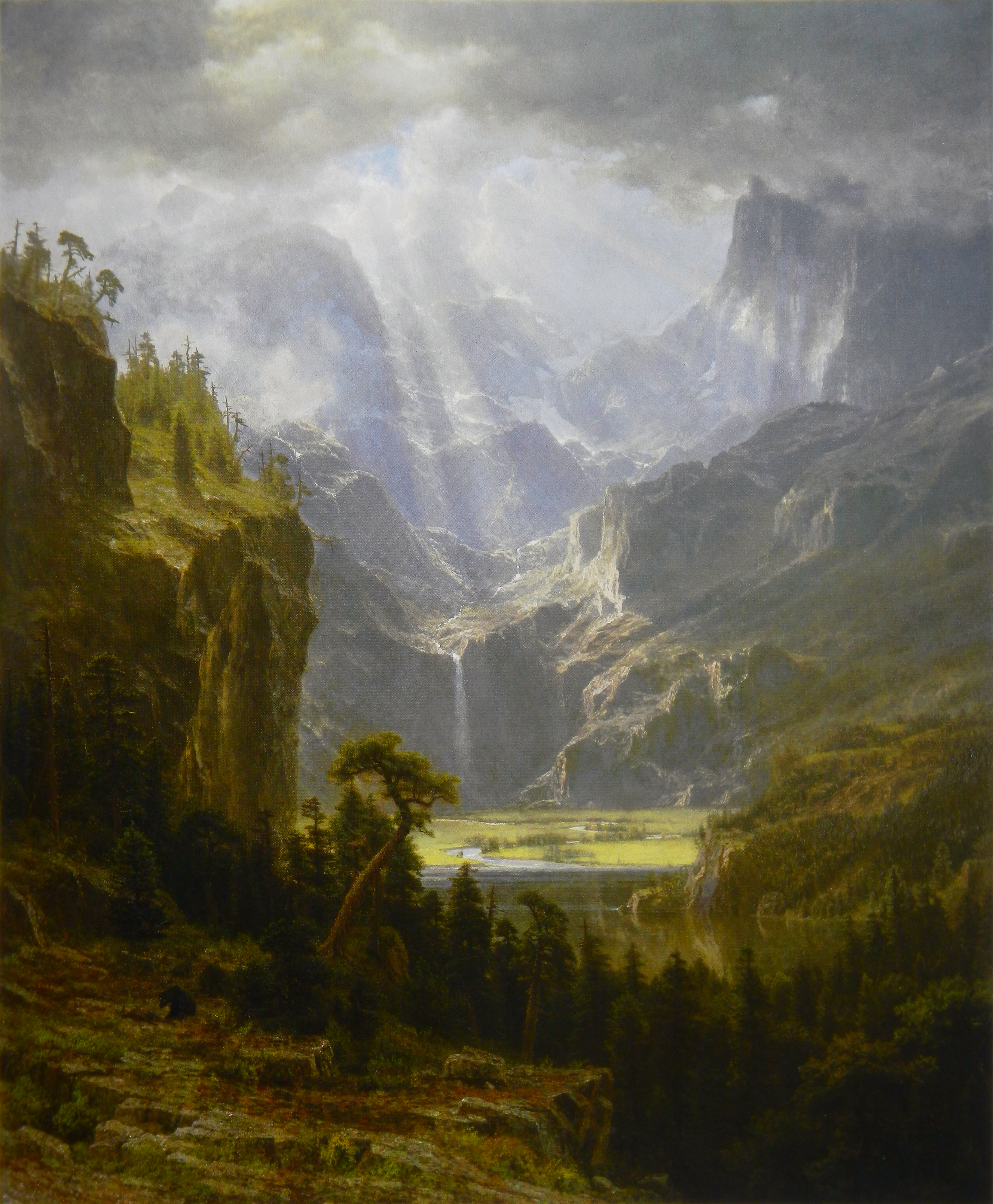 This is a smaller, alternate version of the 1863 painting, The Rocky Mountains, Lander's Peak, although it bears the same title. (This file is not intended to be a high resolution scan of the painting and should be replaced when a better version becomes available.)